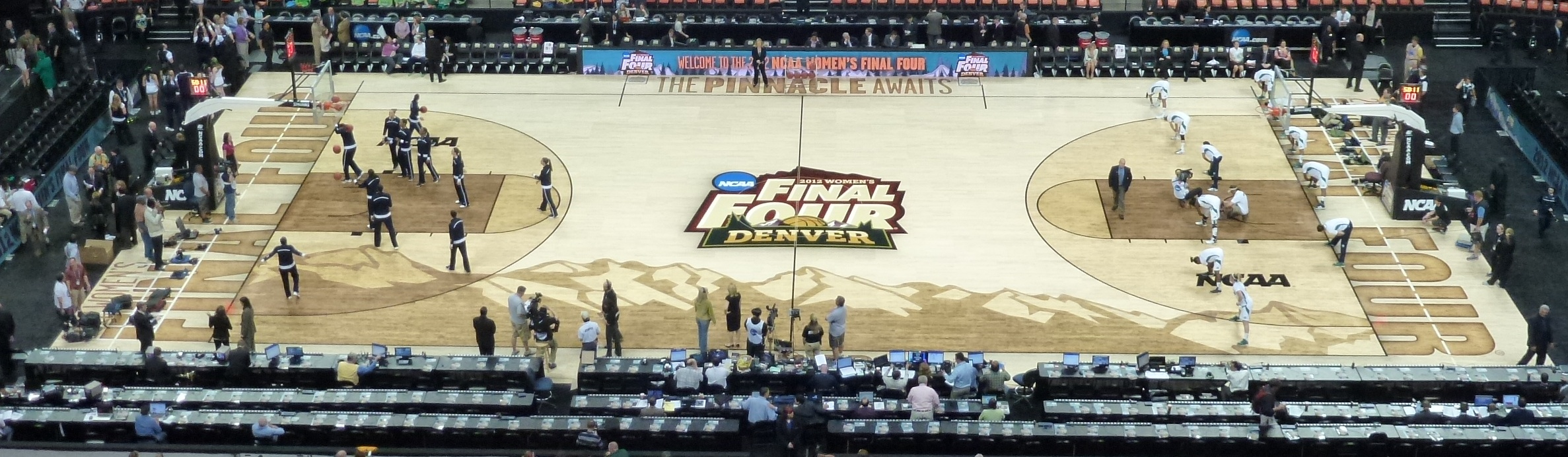 Floor of the arena at the 2012 Women's Basketball NCAA Division I Final Four, held in the Pepsi Center in Denver Colorado.